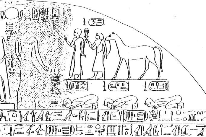 Drawing of the upper-right part of the victory stele of pharaoh Piye, depicting Piye being tributed by four Nile Delta rulers: Nimlot (holding an horse) and his queen (before him), Osorkon IV, Iuput II and Peftjauawybast [see note for details]. Original stele in granite, found at Jebel Barkal and datable to the reign of Piye, 25th dynasty, now in the Cairo Museum.